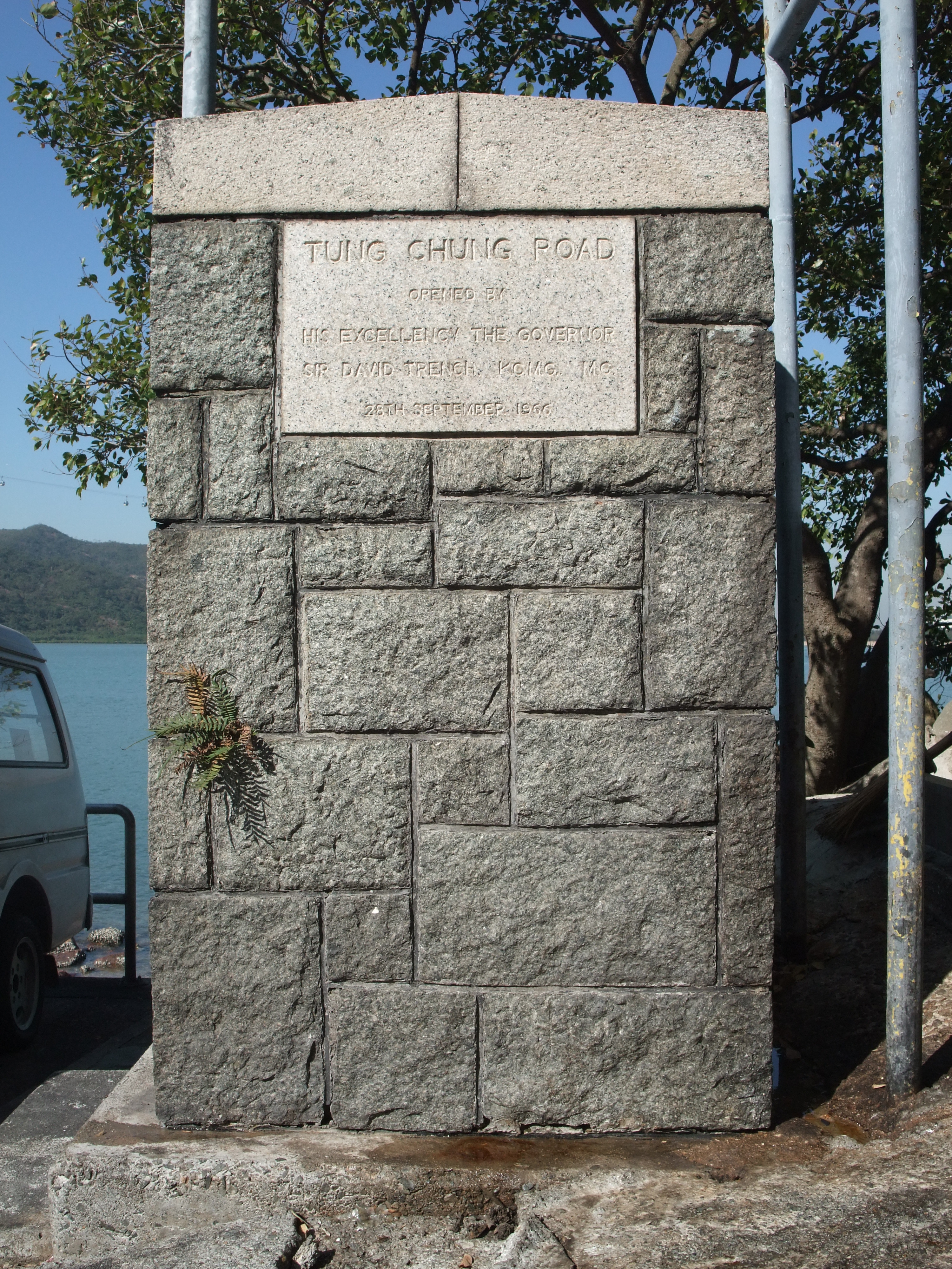 Photo of plaque of Tung Chung Road